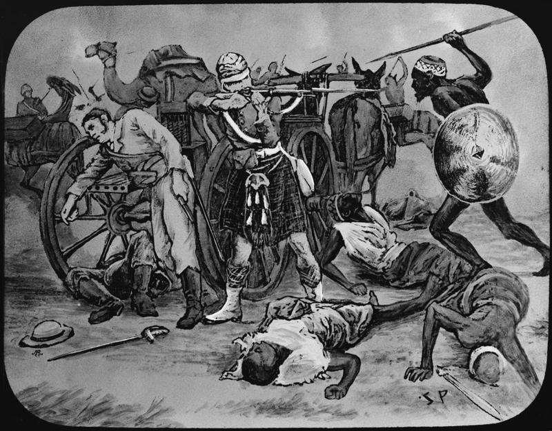 Victoria Cross Winners- Pre 1914 Photograph of a lithograph of Thomas Edwards, awarded the Victoria Cross: Sudan, 13 March 1884.